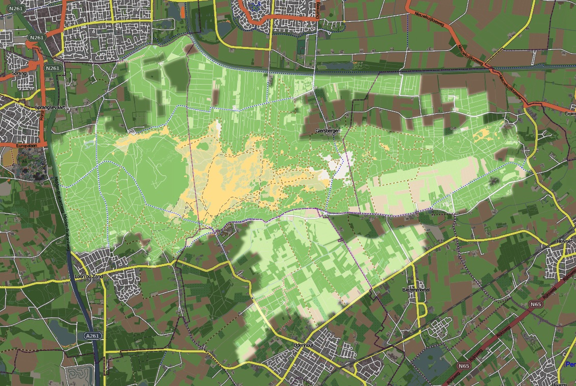 This map may be incomplete, and may contain errors. Don't rely solely on it for navigation.